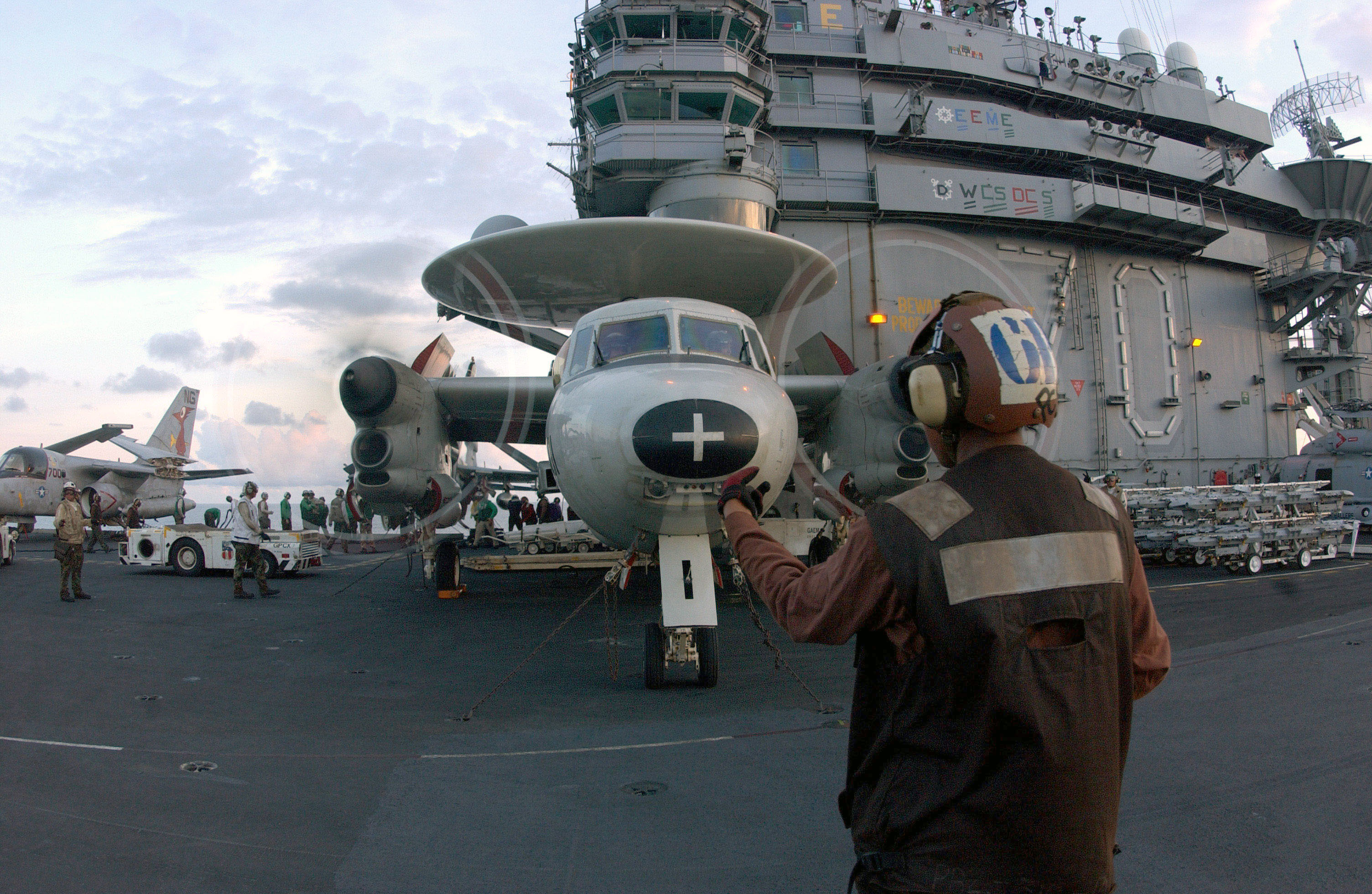 Philippine Sea (Jun. 15, 2003) -- A plane captain assigned to the "Golden Hawks" of Carrier Airborne Early Warning Squadron One Twelve (VAW-112) signals the pilot during an engine start-up of an E-2C Hawkeye at the beginning of flight operations. The Carl Vinson Carrier Strike Group will remain in the Western Pacific while the forward-deployed USS Kitty Hawk (CV 63) completes scheduled dry dock maintenance. U.S. Navy photo by Photographer's Mate Airman Chris Valdez. (RELEASED)